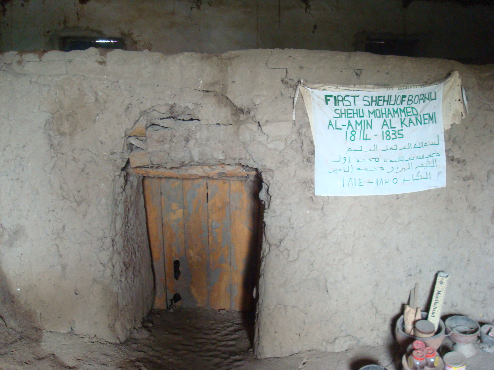 Tomb of the first Shehu of Borno, Muhammad al-Amin al-Kanemi, Kukawa, Borno State, Nigeria